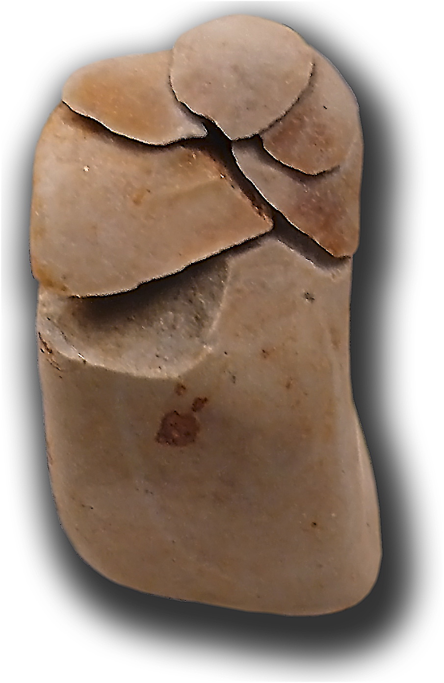 Refitting of a chopper in quartzite, its comes from a fluvial quaternary terrace in Jarama river (Arganda, Madrid, Spain) and it is dated in Acheulean period (Lower Paleolithic)